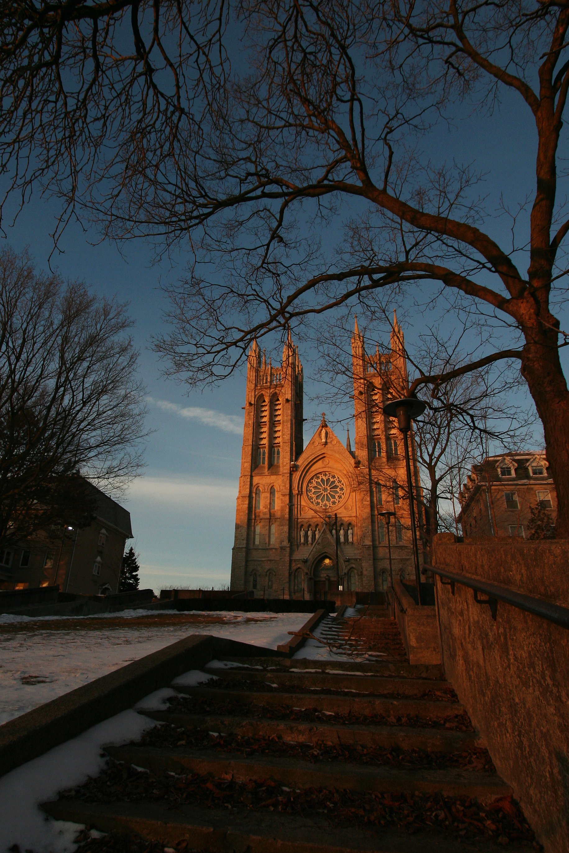 Church of our Lady Immaculate, Guelph, Ontario